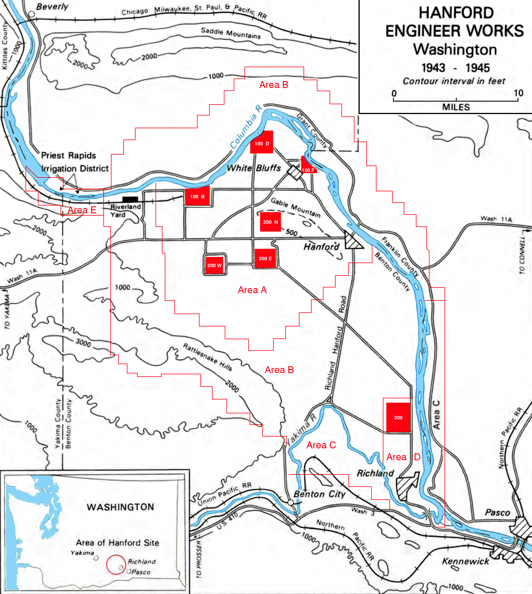 Map of the Hanford Engineer Works 1943-1945